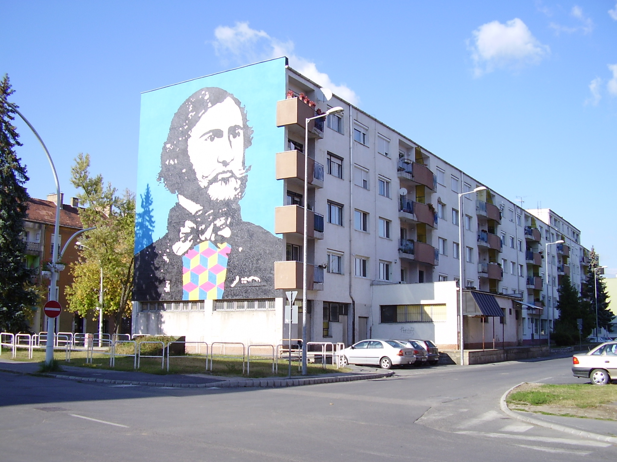 Portrait mural of Béni Egressy by Mátyás Mátyás (2013 mural, destroyed circa 2015, an other with white background painted in or before 2017 see other version photo) - Egressy Béni Street, Kazincbarcika, Borsod-Abaúj-Zemplén County, Hungary